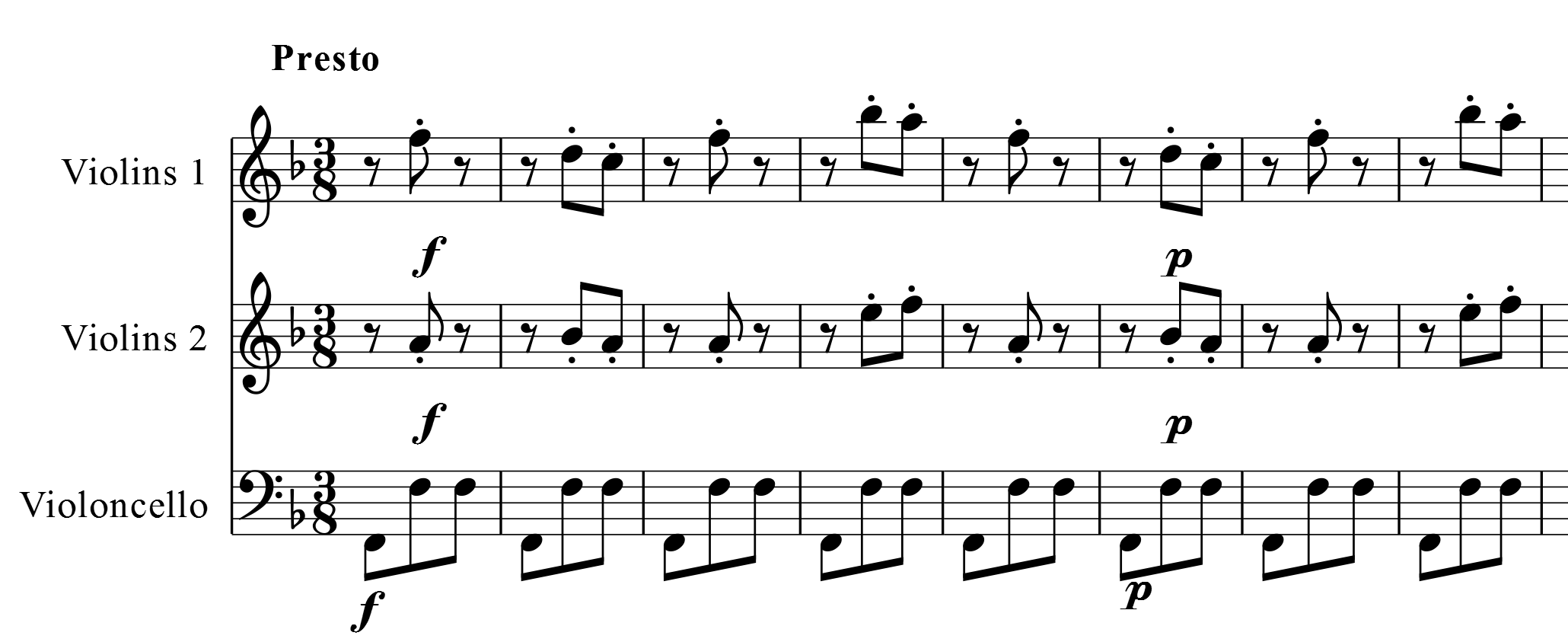 Joseph Haydn, Symphony No. 58, last movement, bar 1-8